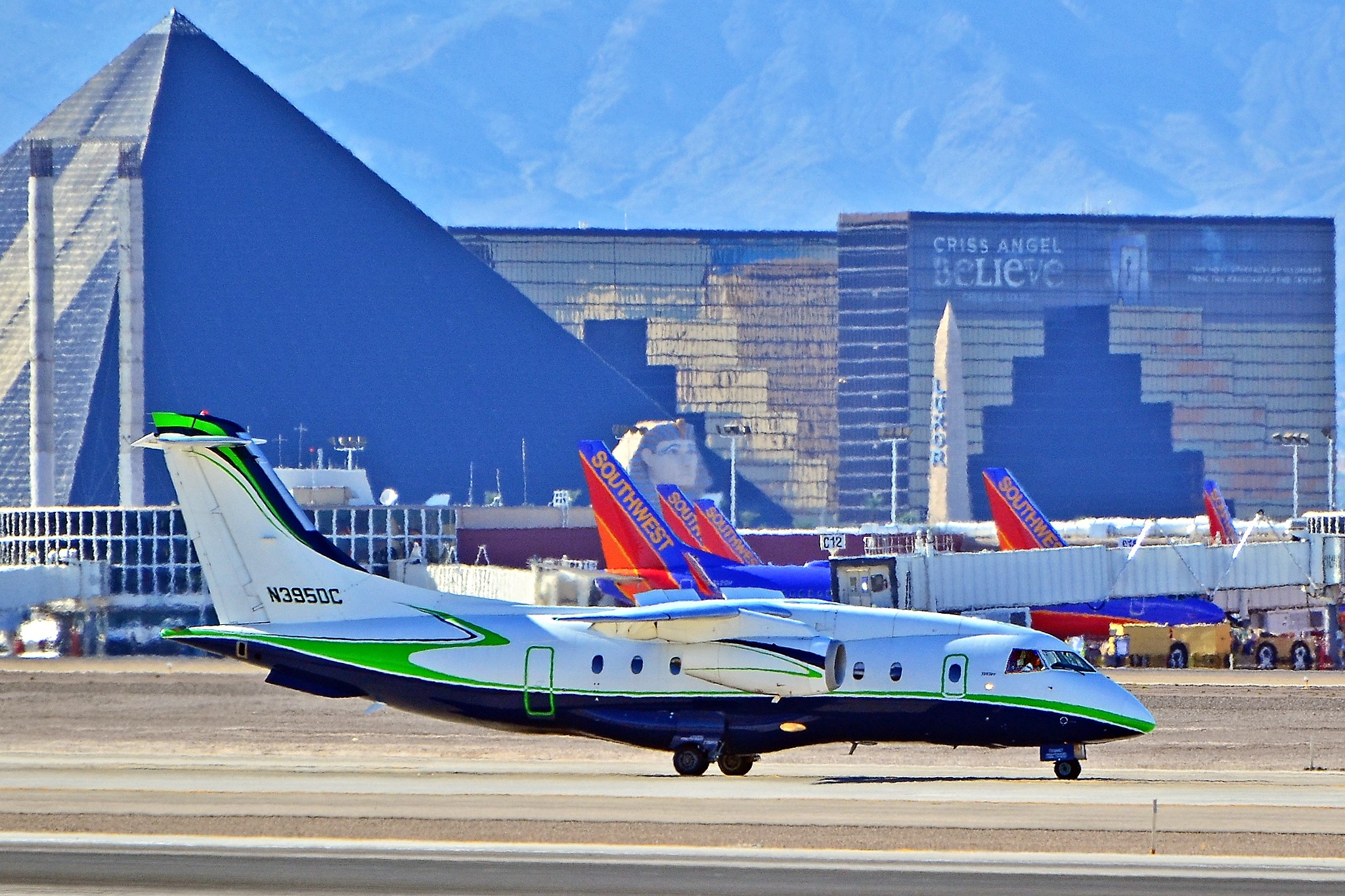 Las Vegas - McCarran International Airport (LAS / KLAS) USA - Nevada September 19, 2014 Photo: Tomás Del Coro